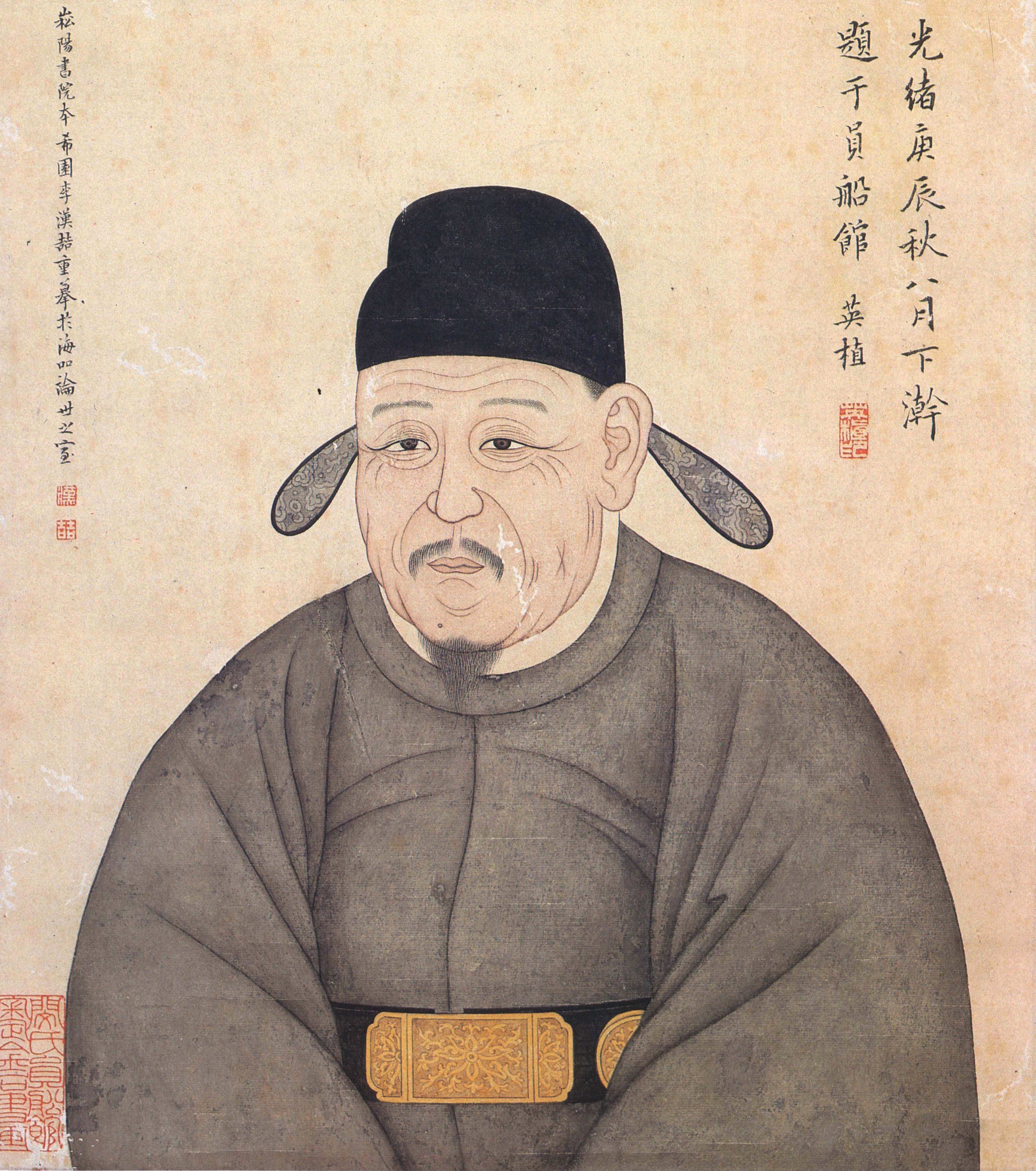 Jeong Mong-ju